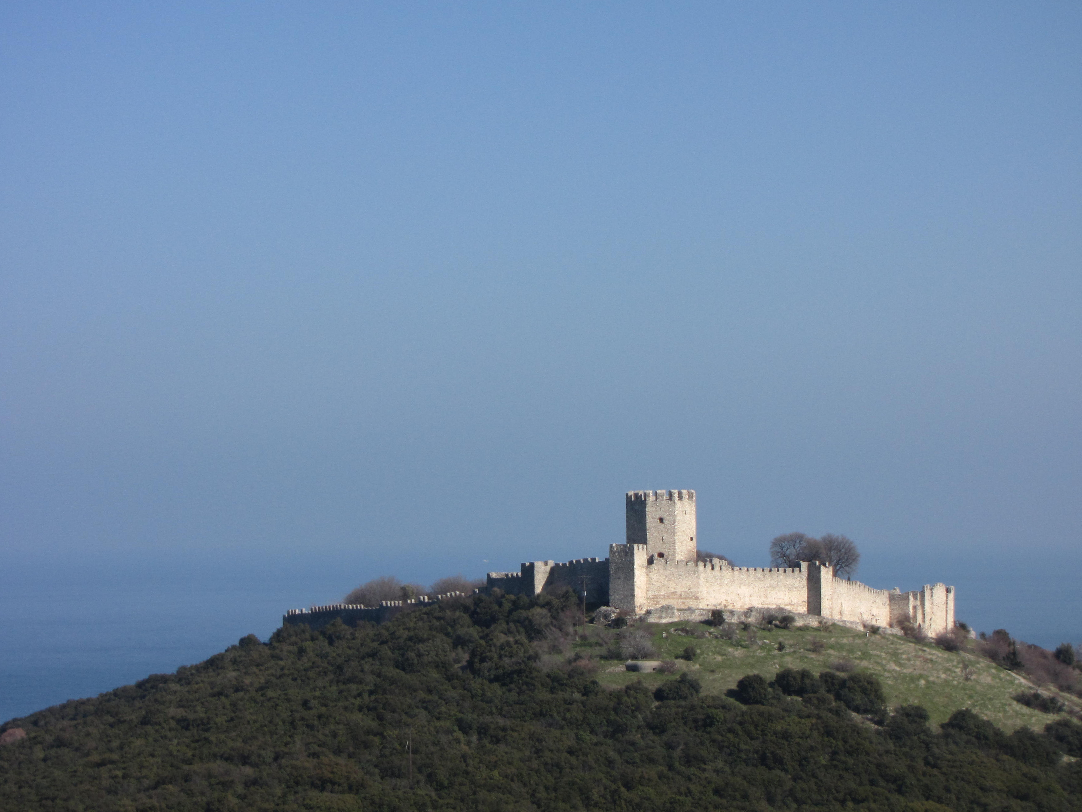 The Castle at Platamonas